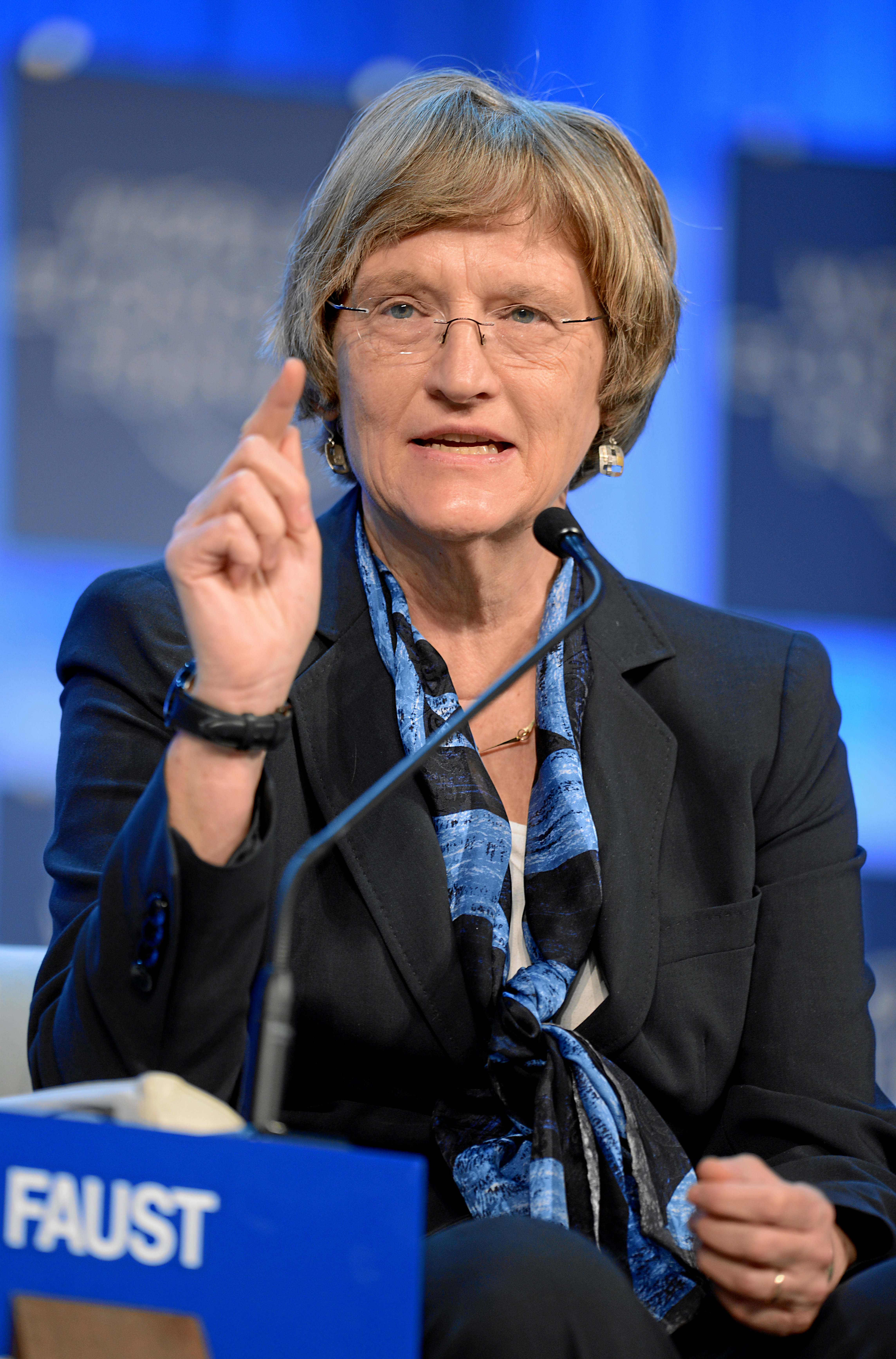 DAVOS/SWITZERLAND, 25JAN13 - Drew Gilpin Faust, President, Harvard University, USA makes a point during the session 'Women in Economic Decision-making' at the Annual Meeting 2013 of the World Economic Forum in Davos, Switzerland, January 25, 2013. . . Copyright by World Economic Forum. . Michael Wuertenberg